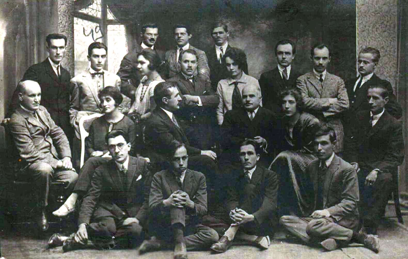 Zlatorog